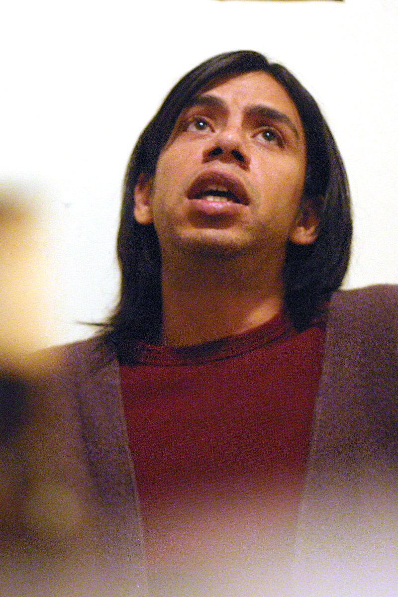 Hector Jimenez, Mexican actor at his house in Mexico City, December 2006